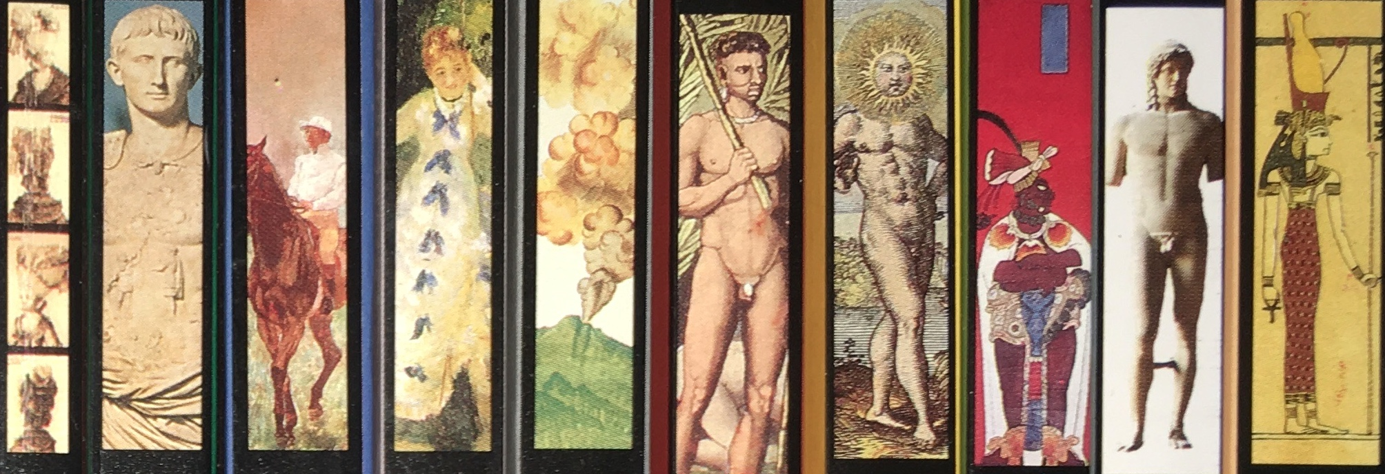 Images featured on the book spines of “Découvertes Gallimard”.